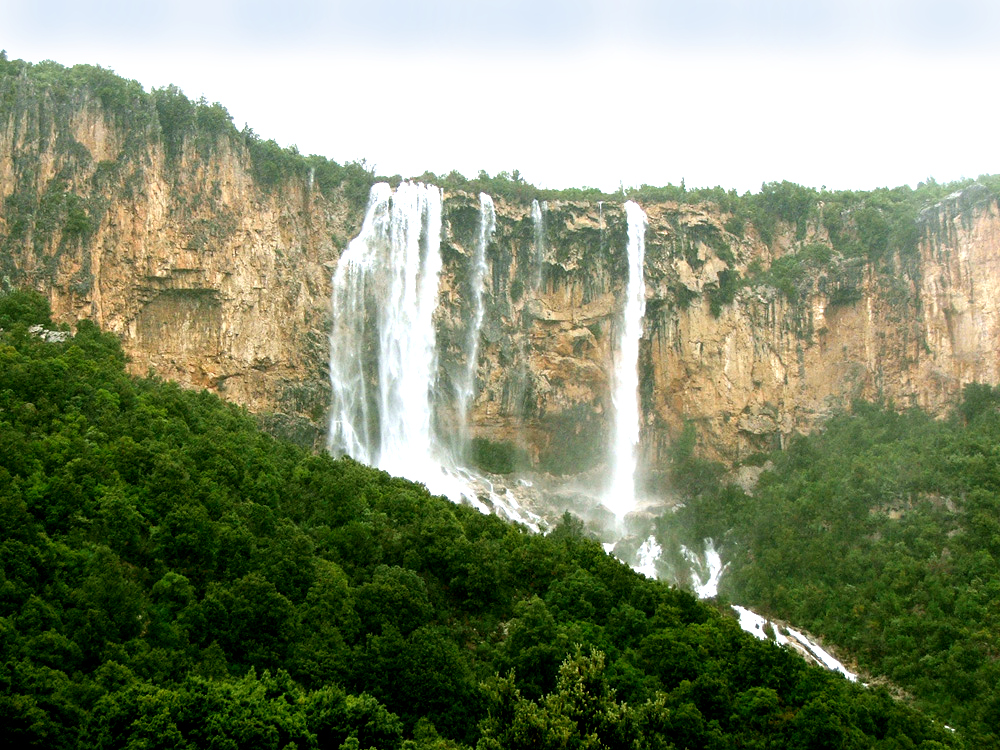 Waterfalls in Sardinia (ulassai)